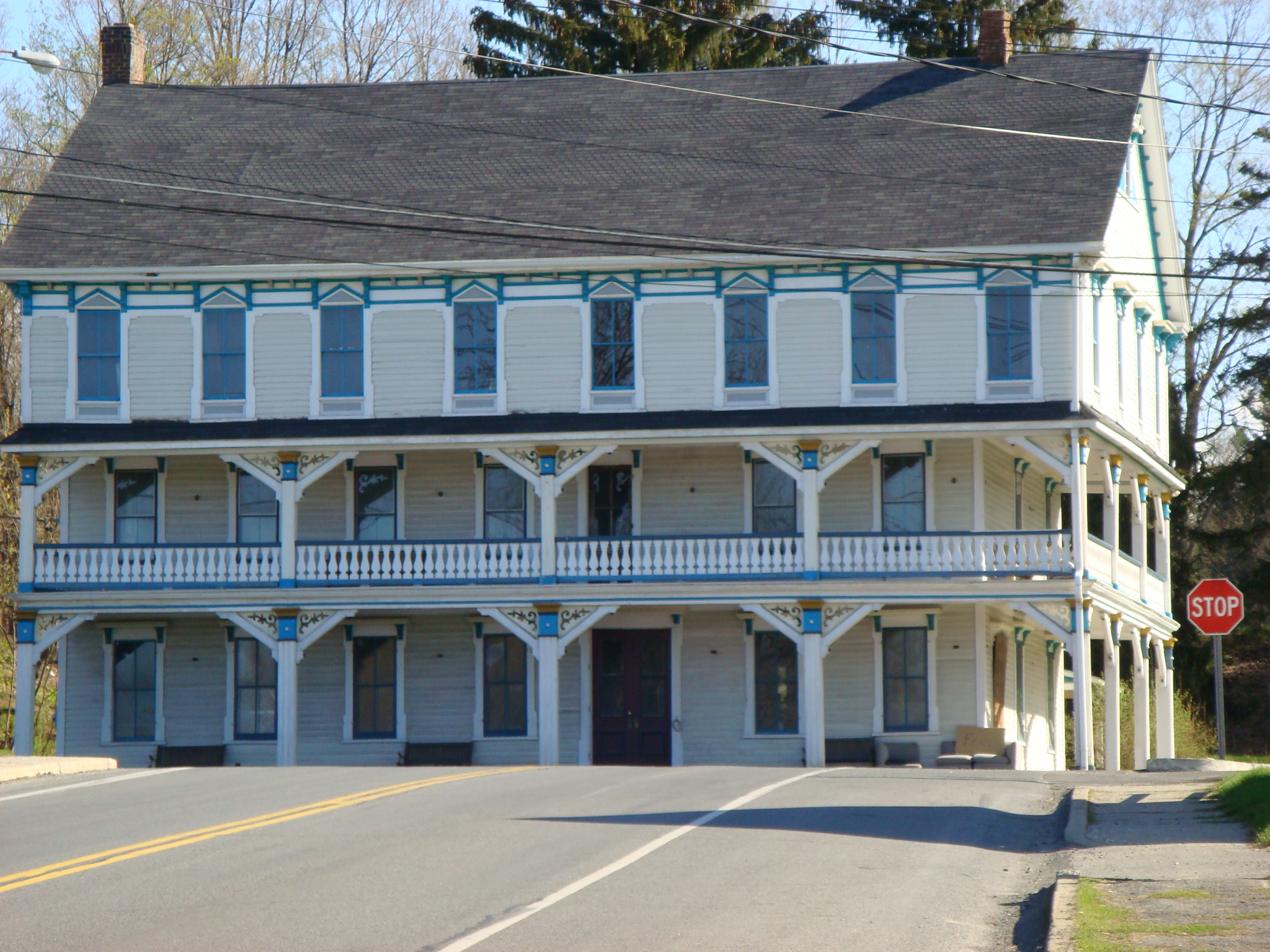 Delaney Hotel North Hoosick Falls Ny